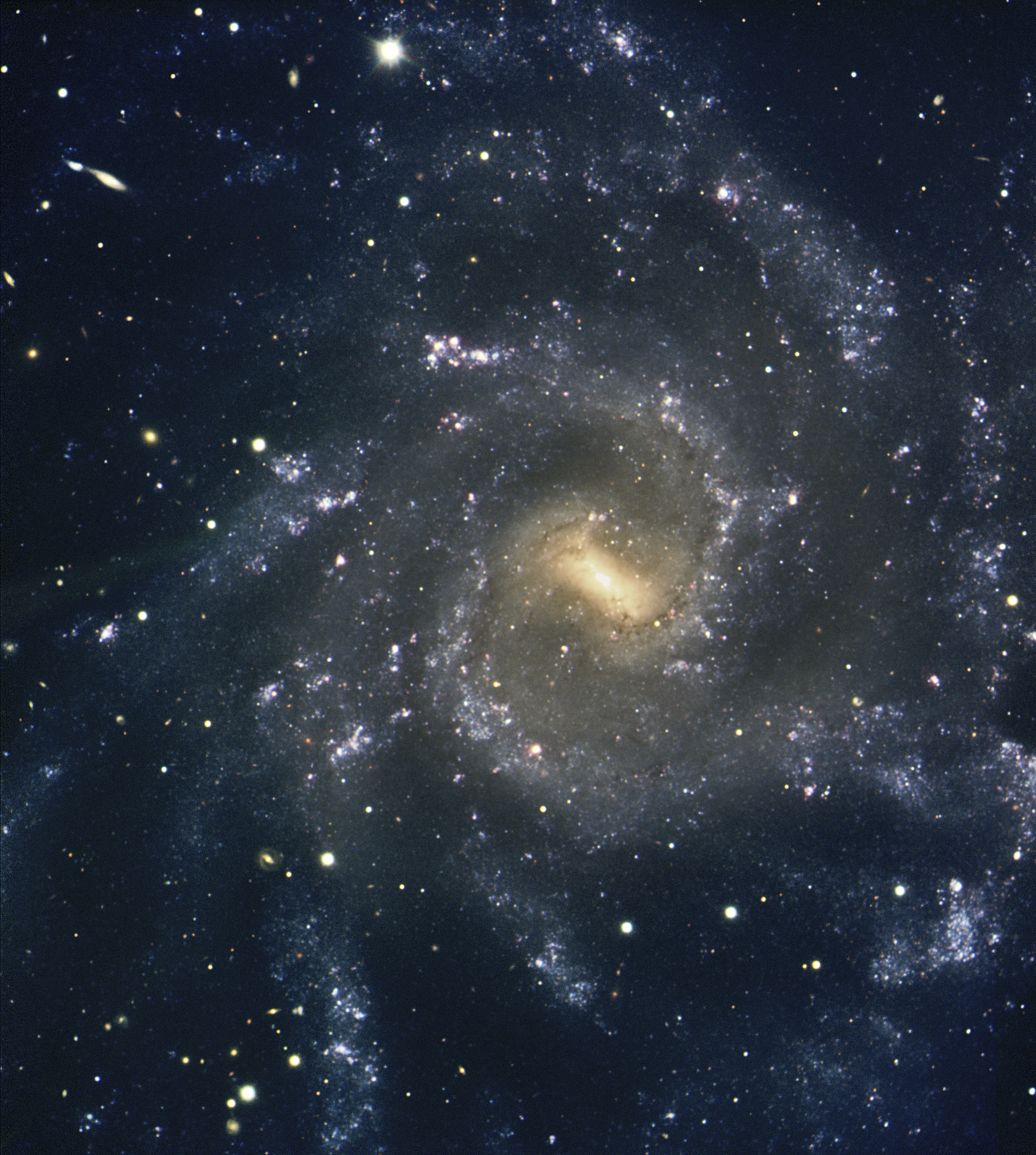 Composite colour-coded image of another magnificent spiral galaxy, NGC 7424, at a distance of 40 million light-years. It is based on images obtained with the multi-mode VIMOS instrument on the ESO Very Large Telescope (VLT) in three different wavelength bands. The image covers 6.5 x 7.2 square arcminutes on the sky. North is up and East is to the right.